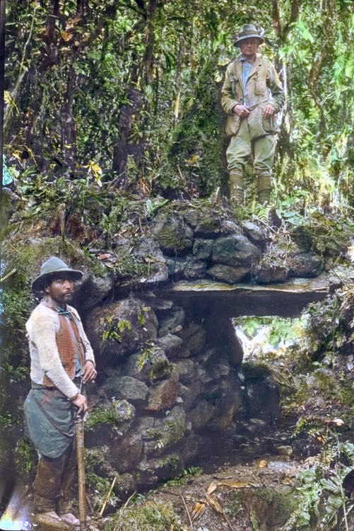 View of Hiram Bingham III standing atop a jungle bridge at Espiritu Pampa in Peru. Hand-colored glass slide, from original image by Harry Ward Foote. Foote was a Yale Ph.B. (1895) and Ph.D. (1898), who was a professor of chemistry at Yale College, and served as the expedition collector and naturalist on Bingham's expeditions to Peru. Yale Peruvian Expedition Papers, Yale University Manuscripts & Archives Digital Images Database, Yale University, New Haven, Connecticut.